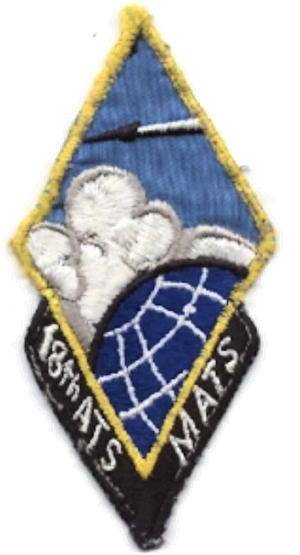 Emblem of the 18th Air Transport Squadron - MATS - Emblem